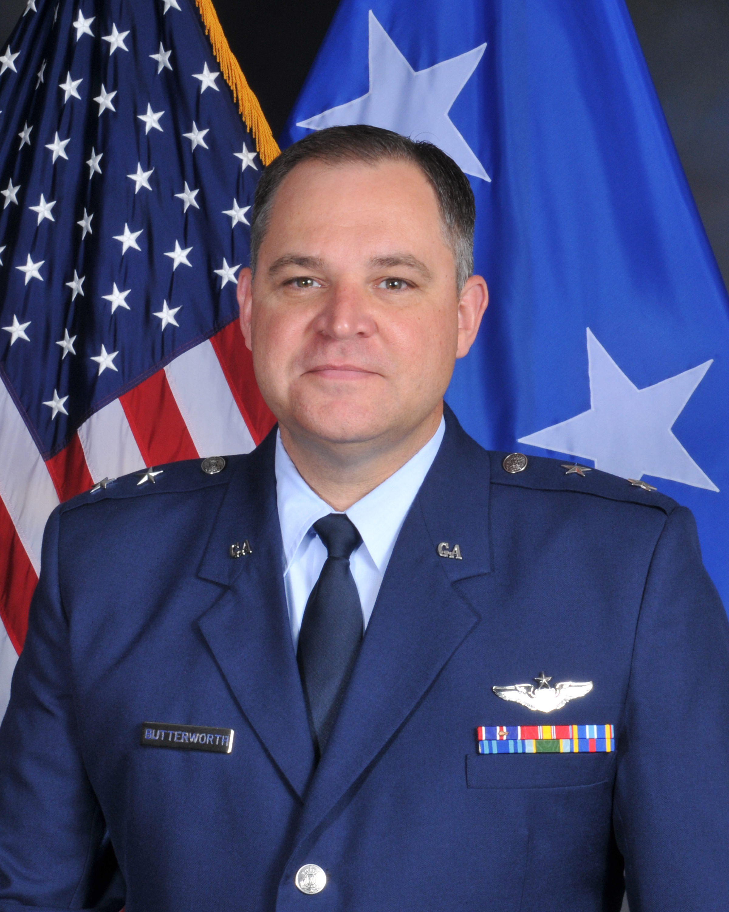 For full bio